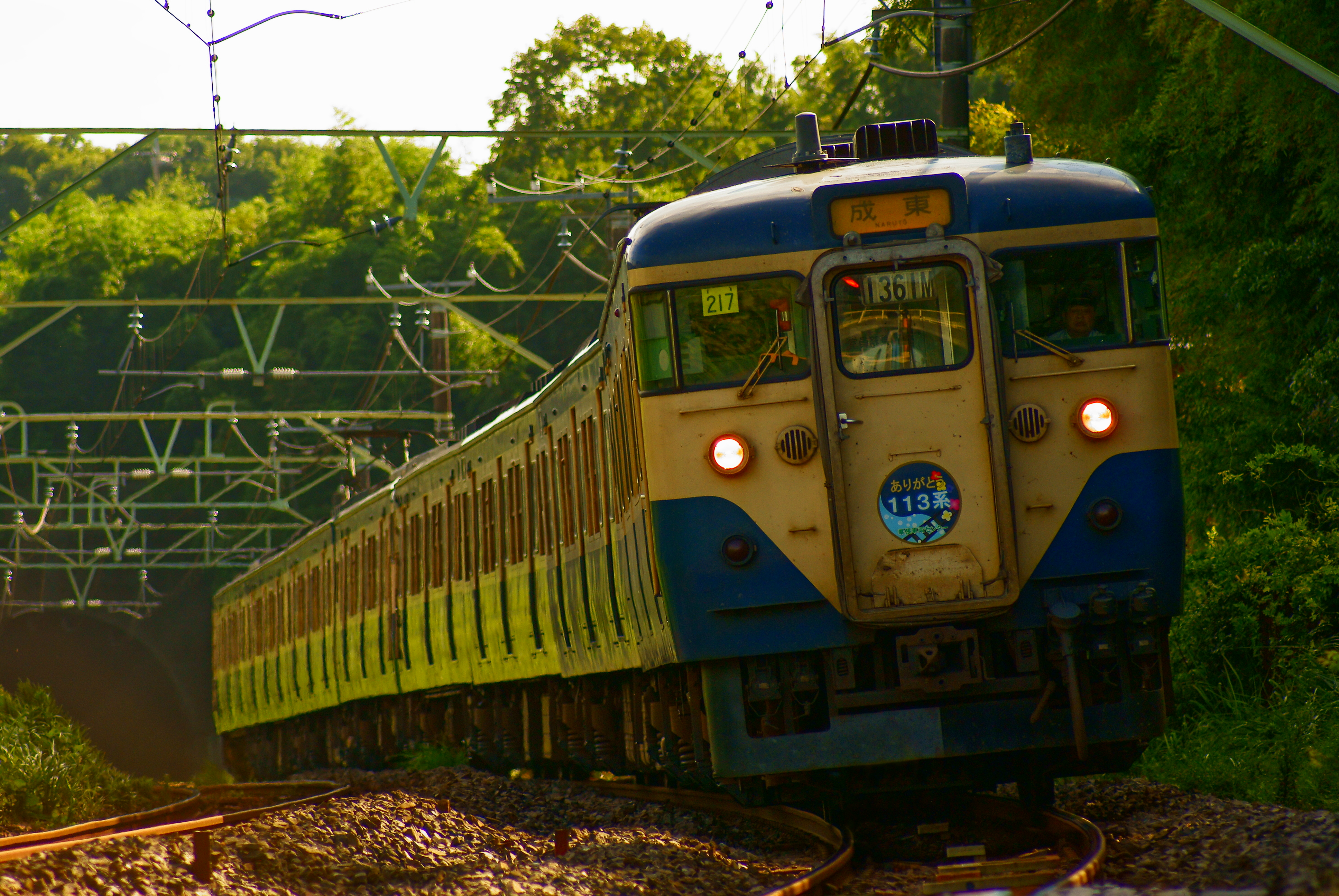 The final run of train serise 113 in Chiba